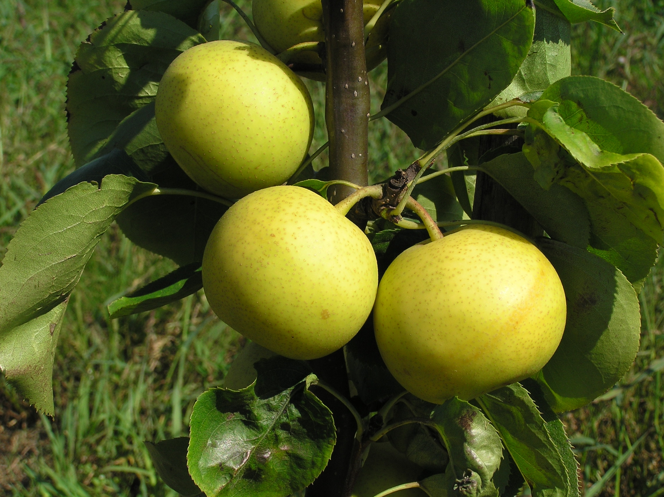 Fruits of Shinseiki pear on tree